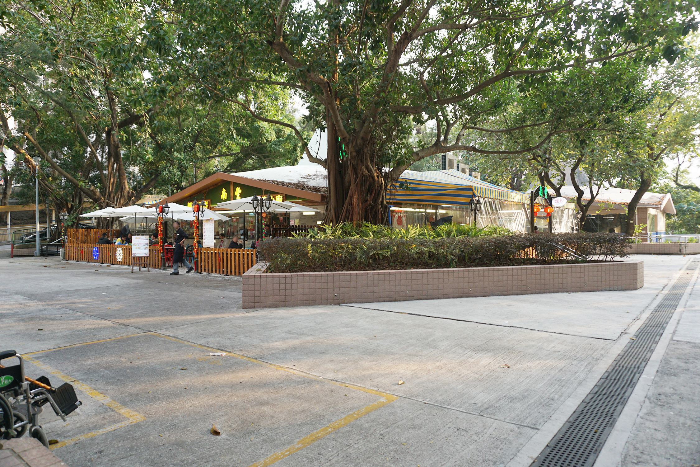 Sun Tin Wai Estate in Sha Tin Tau, Hong Kong.